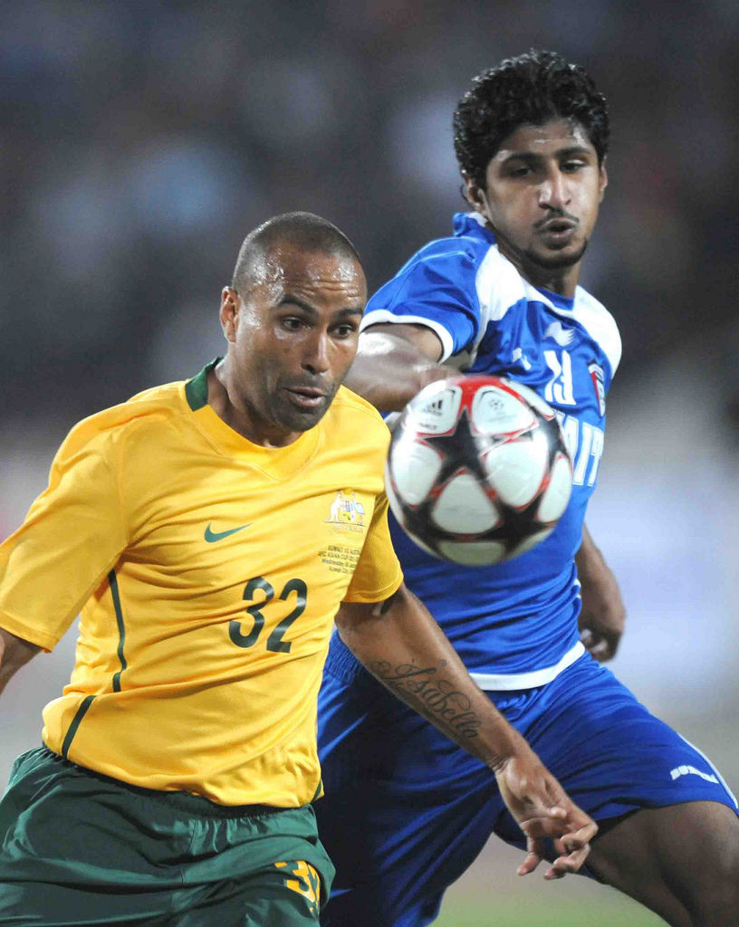 Taken by Kuwait-Ra'ed Qutena with a Nikon D3 camera. Archie Thompson; an Australian professional footballer, playing for Australia national football team against the Kuwait national football team in Asian Cup.